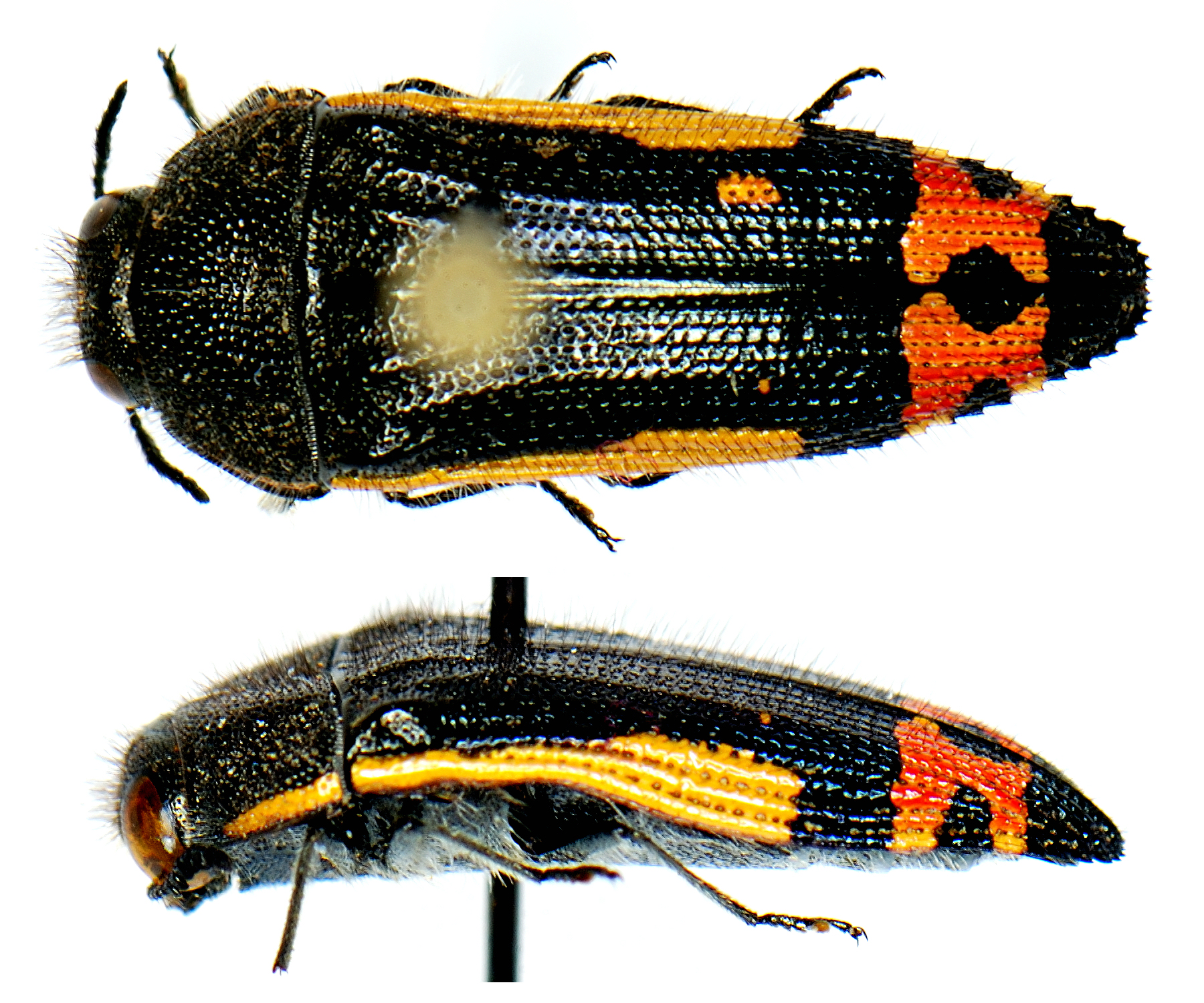 A specimen of Acmaeodera flavomarginata Gray, the yellow-margined flower buprestid. This individual was collected in USA: Texas: Kendall County, Route I-10 at Big Joshua Creek, 3.0 miles S of Hwy RM-1621, on a yellow Asteraceae, 12-Oct-1984, collector M.K. Oliver, in collection of same.